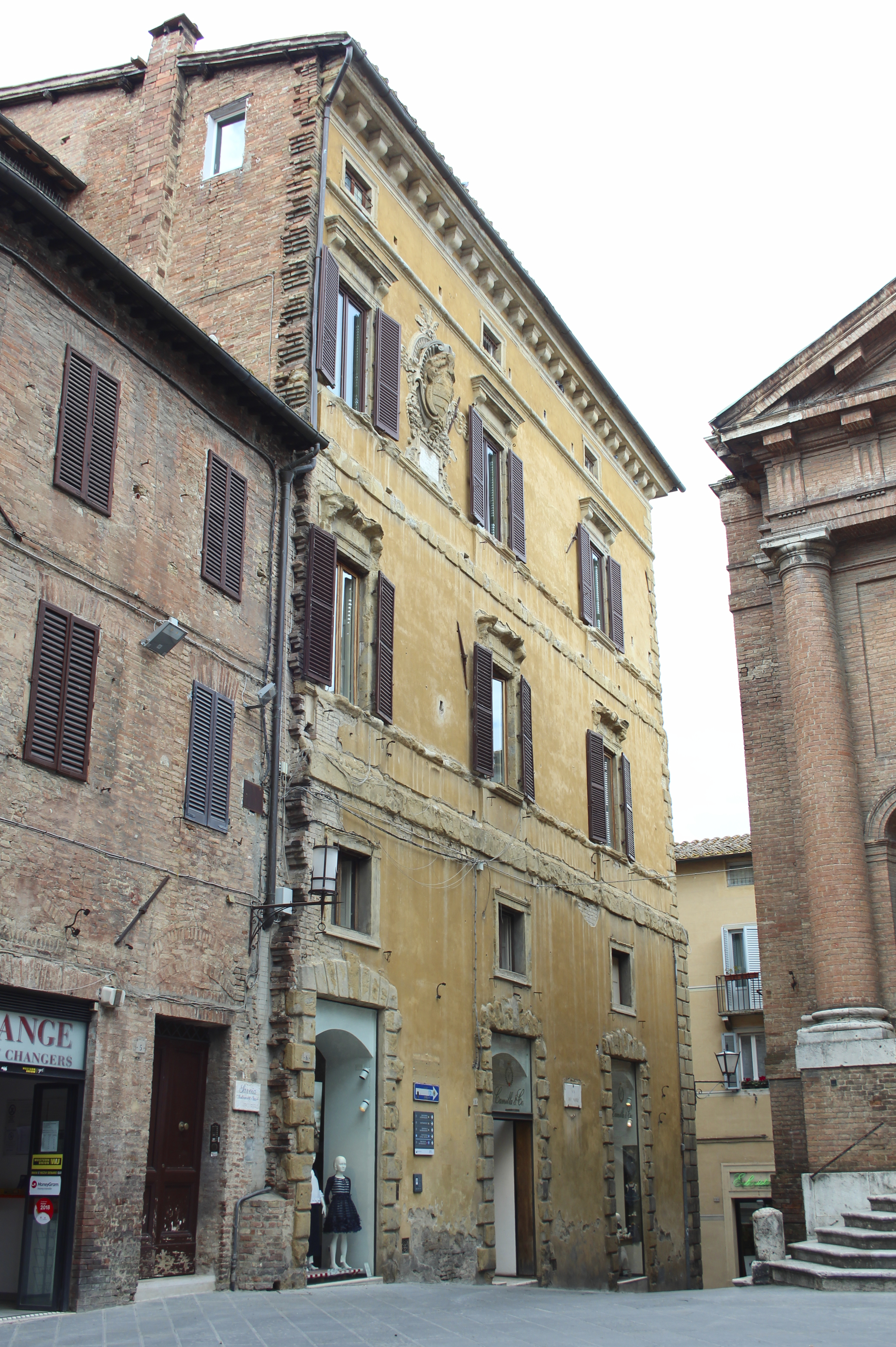 Palazzo Palmieri, Piazza Tolomei / Via del Moro, Terzo di Camollia, Siena, Province of Siena, Tuscany, Italy